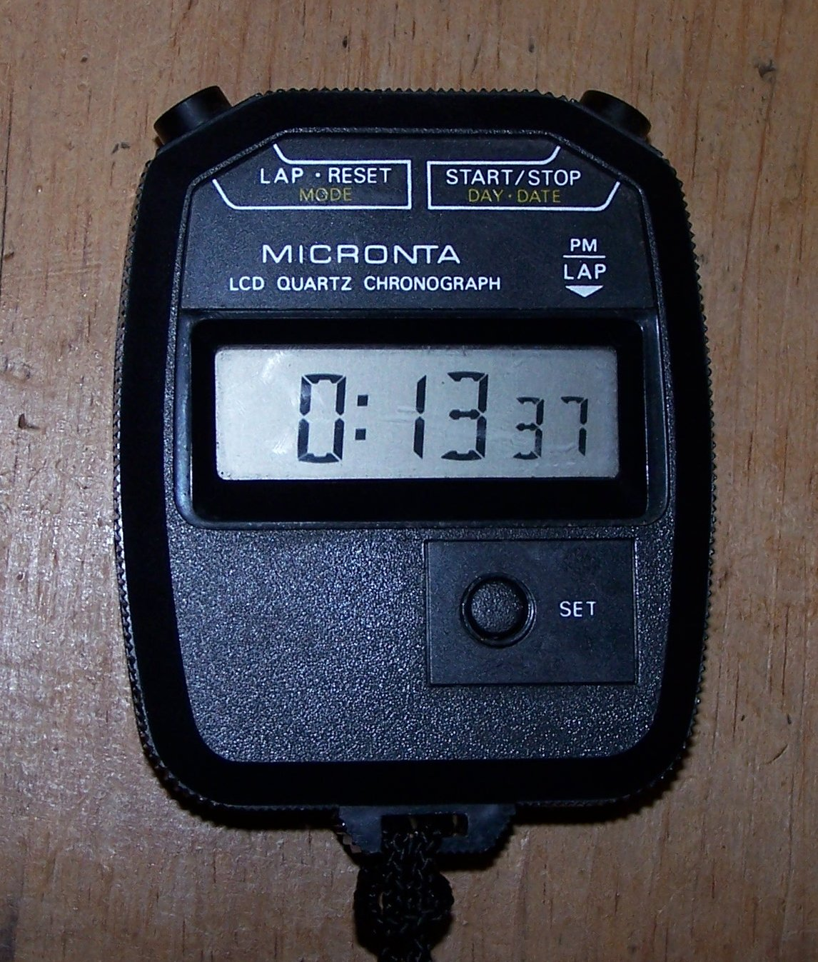 This is when I pressed stop on a stopwatch, and got it on 13:37...ah yea